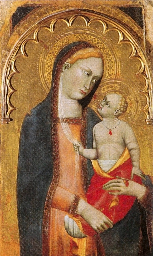 Giovanni di Niccola da Pisa, Madonna col Bambino (particolare di Polittico) 1350s, San Matteo, Pisa